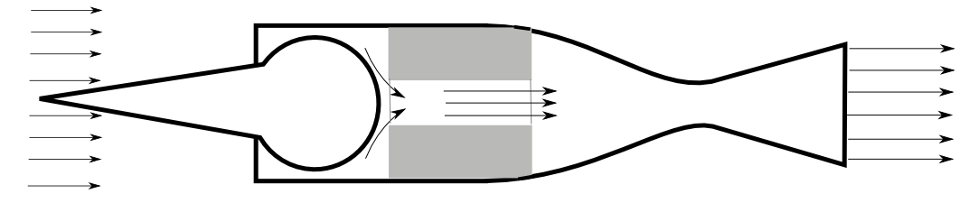 Ramjet engne with solid fuel